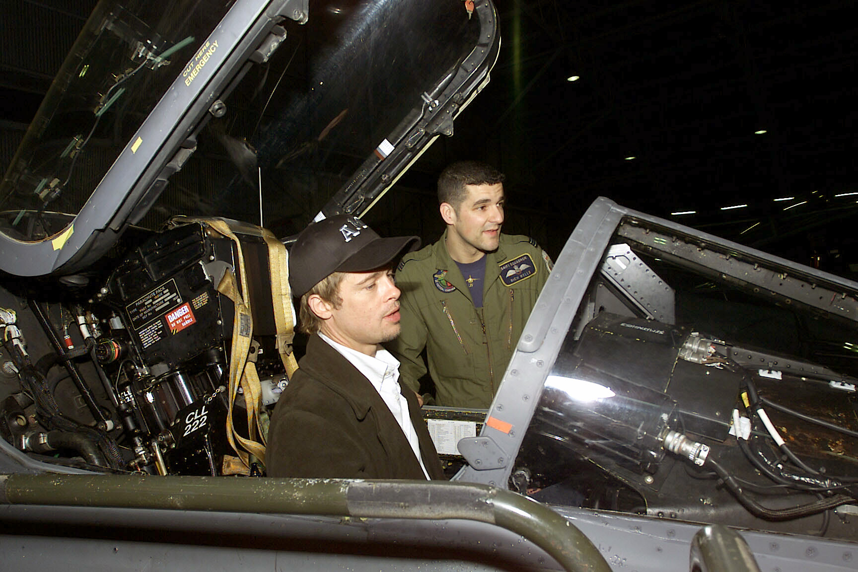 Actor Brad Pitt site in the cockpit of a Royal Air Force (RAF) GR3A Jaguar aircraft as RAF Flight Lieutenant, Rich Wells looks on, at Incirlik AB, Turkey. Brad Pitt and member of the Warner Brother's movie "Ocean's 11" crew visited with deployed military personnel during Operation Nothern Watch.